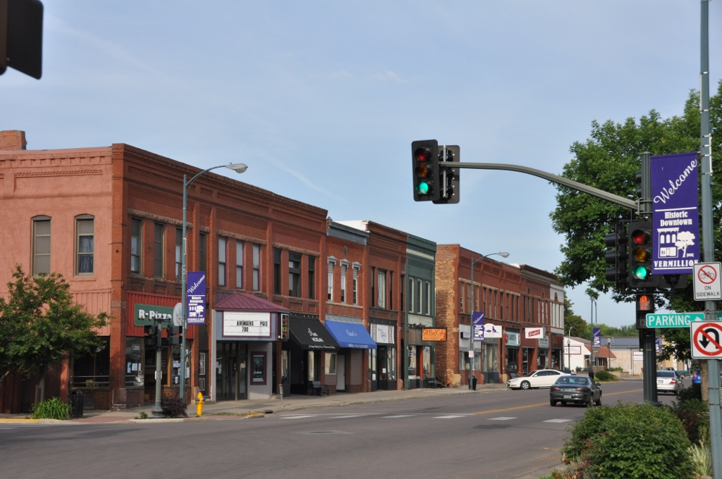 Downtown Vermilion, South Dakota, part of the Downtown Vermilion Historic District.